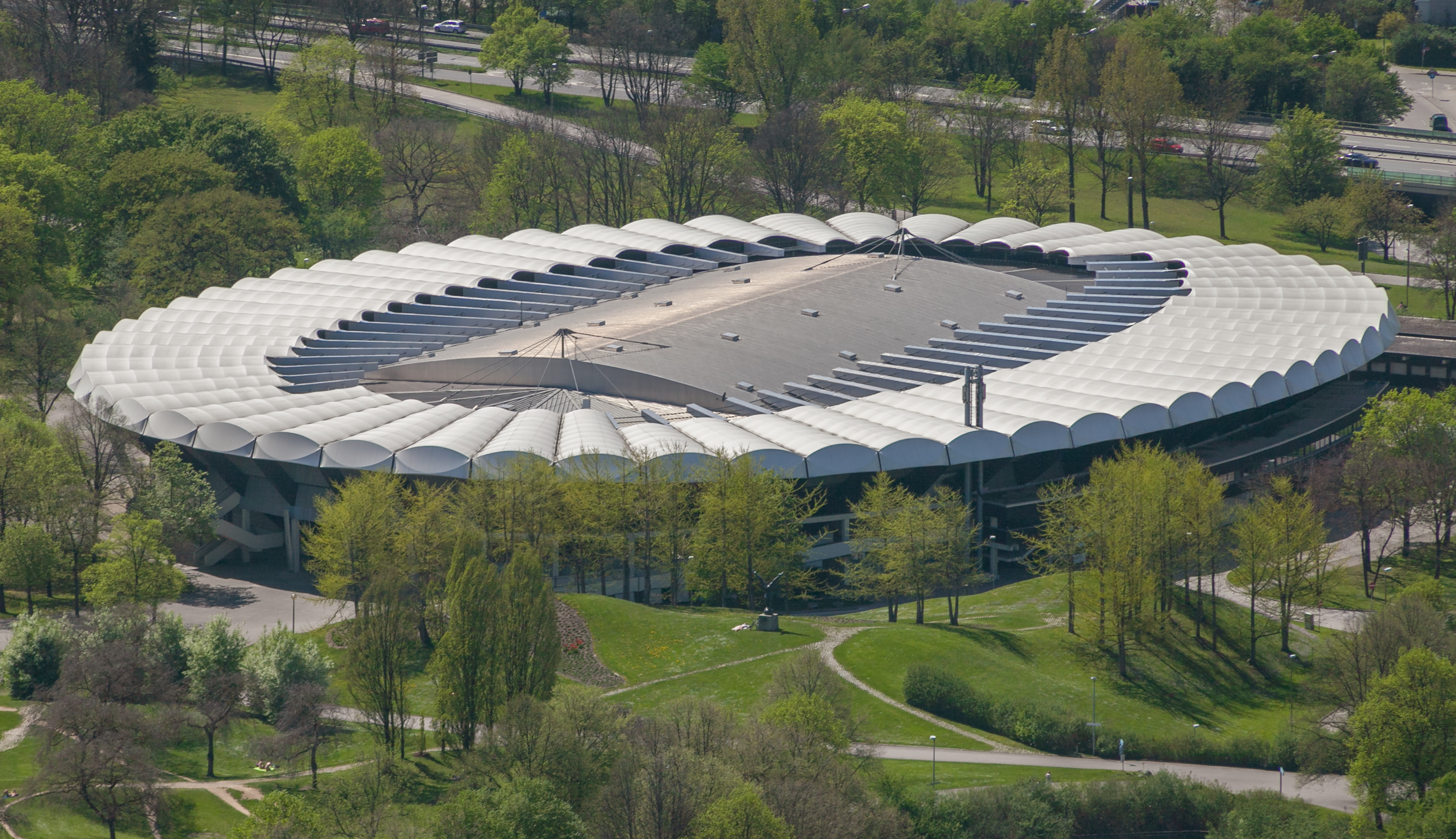 Event Arena, Olympiapark, Munich, Germany